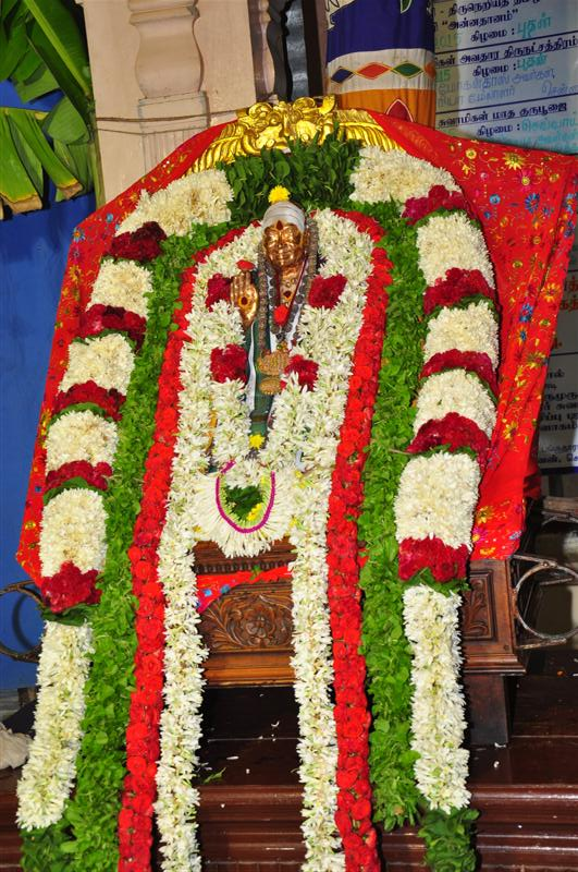 Kirupanandha Variyar REMEMBERING CEREMONY HELD ON 7-11-2015 AT Kangeyanallur, Vellore, Tamil Nadu,INDIA